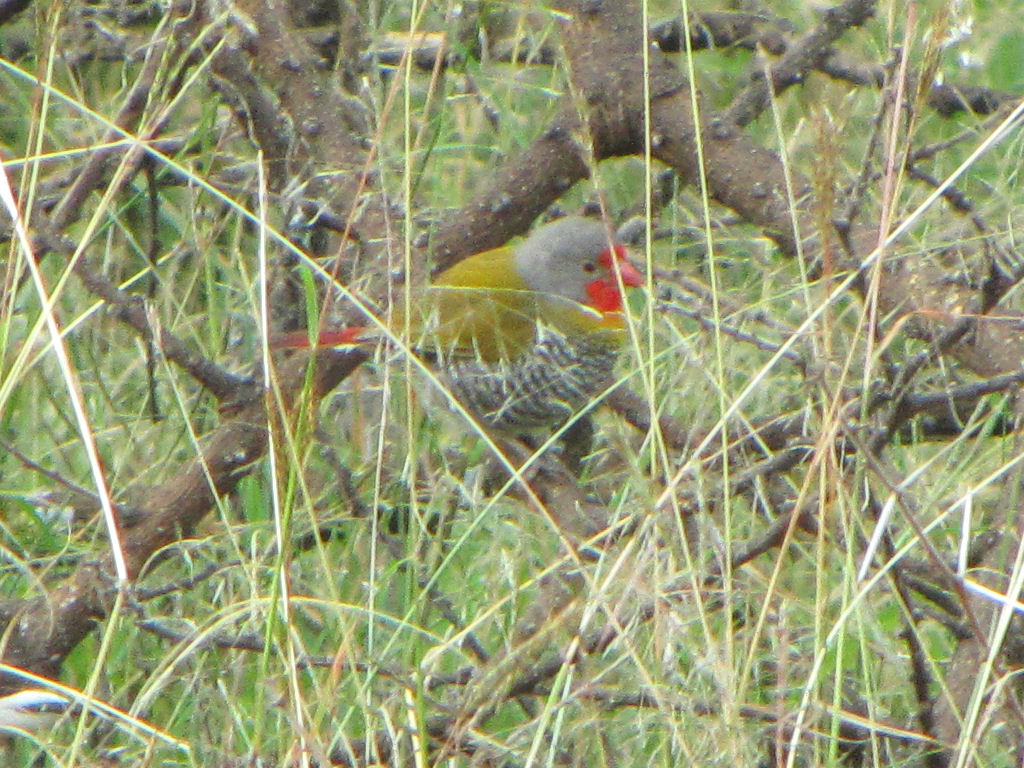 Green-winged Pytilia (Pytilia melba), Serengeti National Park, Tanzania. Note strongly barred underparts and grey extending on to nape.